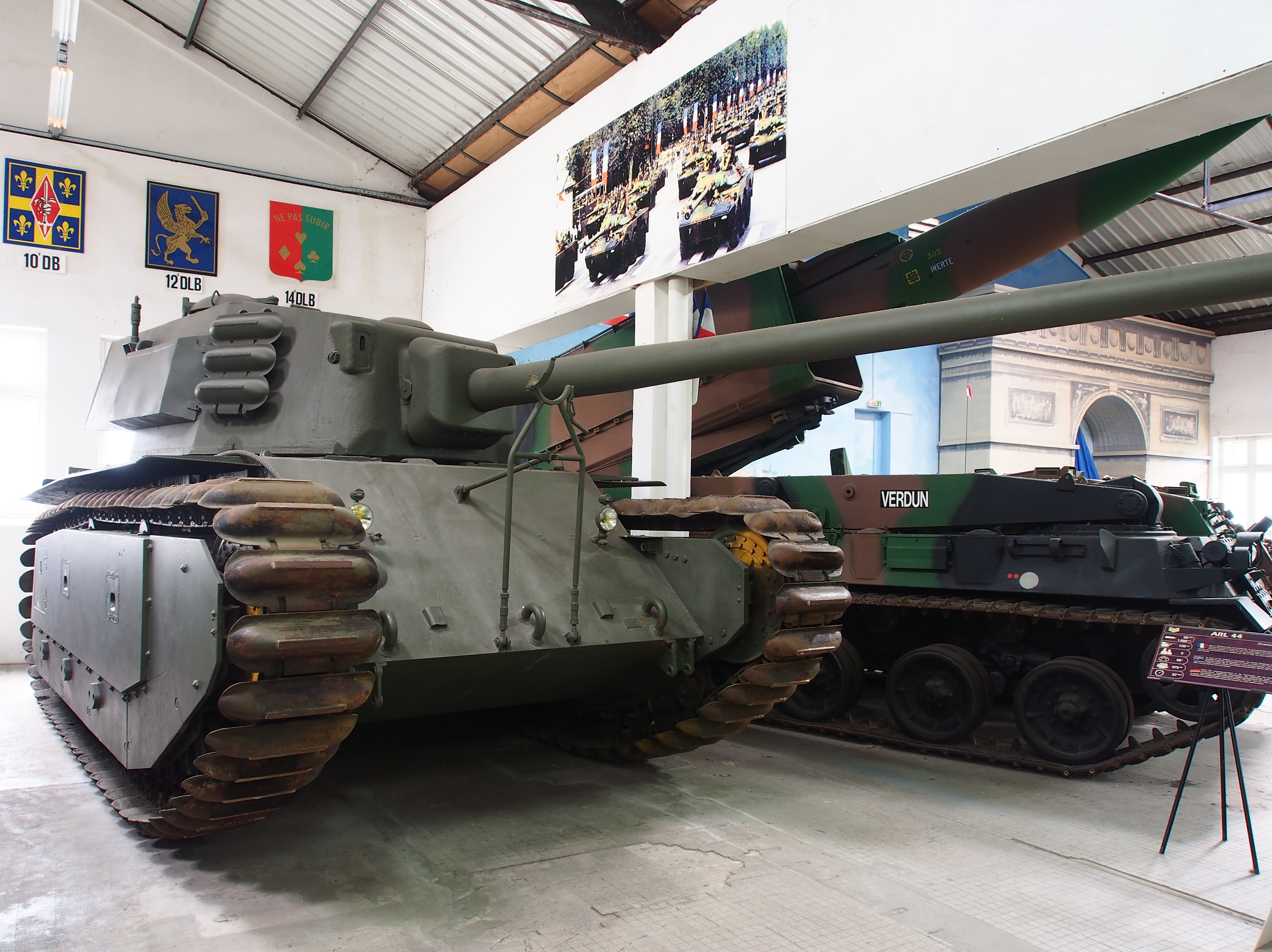 Photographed in the Musée des Blindés, France.